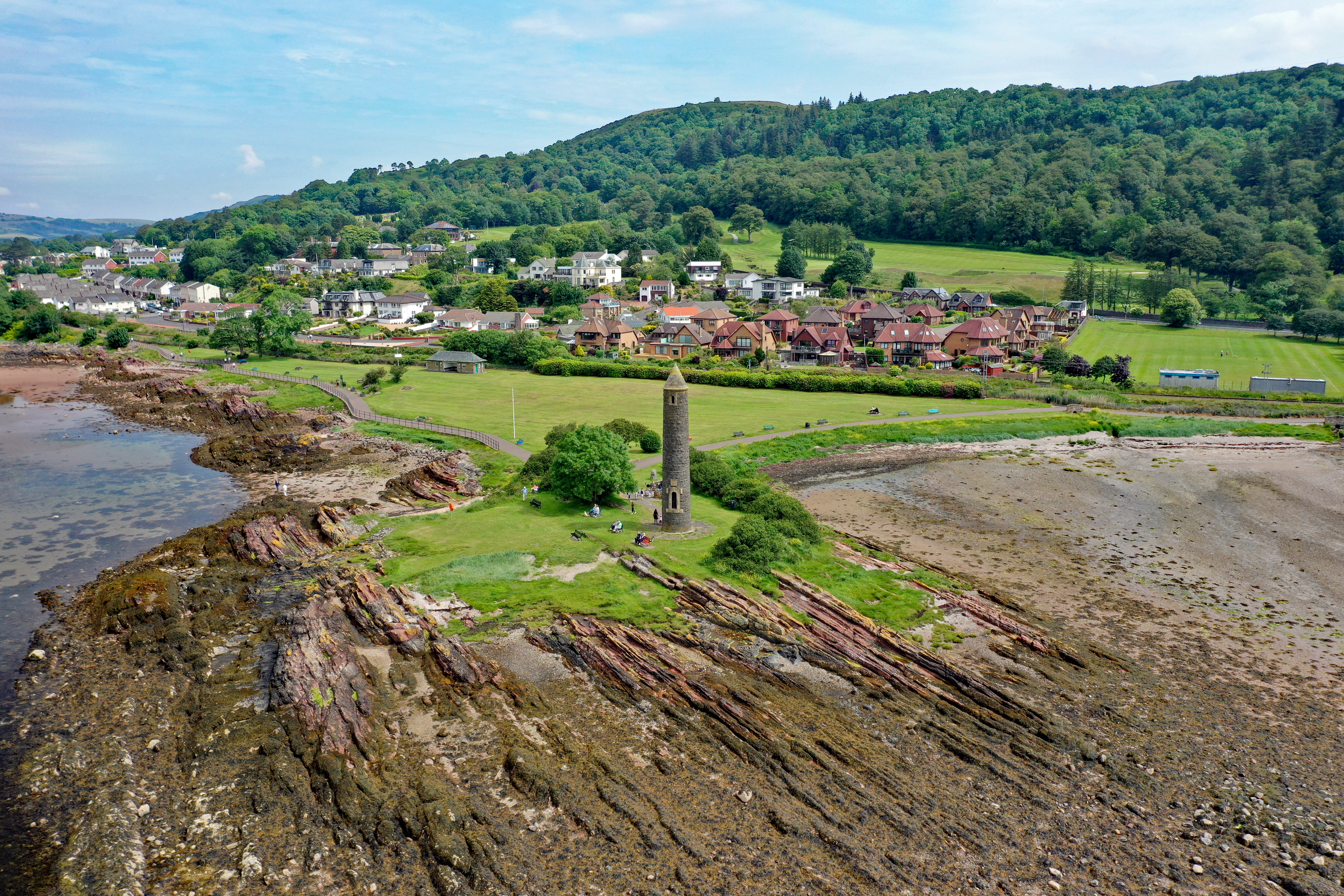 Largs (Ayrshire, Scotland, UK)